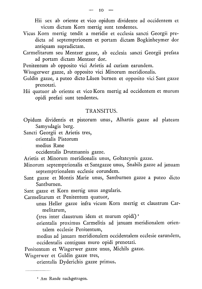 Frankfurt on the Main: Excerpt of the transcript by Heinrich von Nathusius-Neinstedt of the Liber censuum written by Baldemar von Baldemar von Petterweil in 1350; this is a part of the description of the high streets of the Unterstadt (Lower part of town, meaning everything to the west of the Roemerberg, back then yet Samstagsberg) and their passages